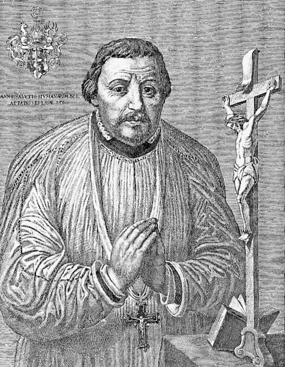 Image of Prince Bishop Jakob Christoph Blarer von Wartensee (1542 - 1608) of the Diocese Basel (Switzerland).